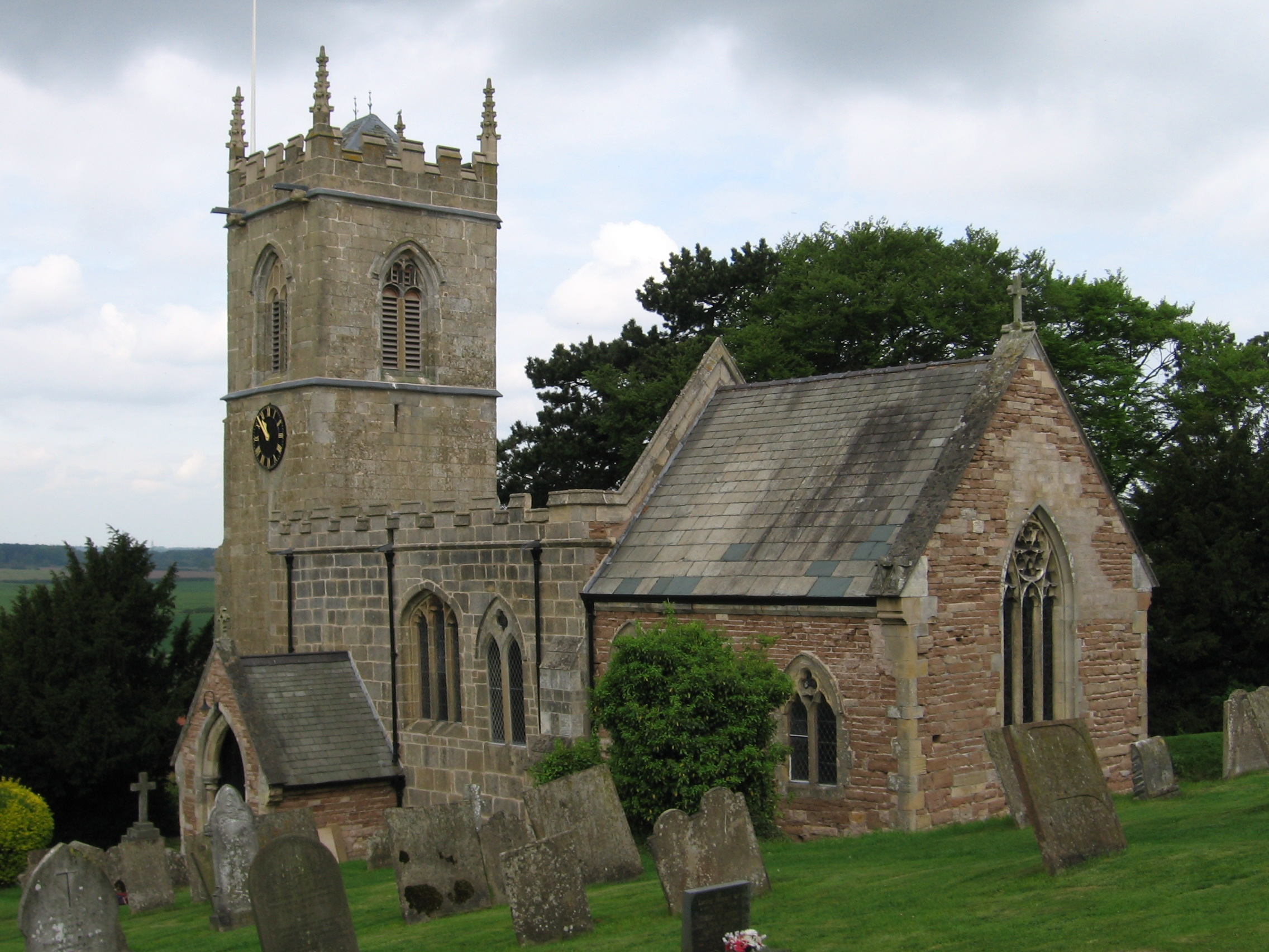 Holy Trinity parish church, Kirton, Nottinghamshire, seen from the southeast